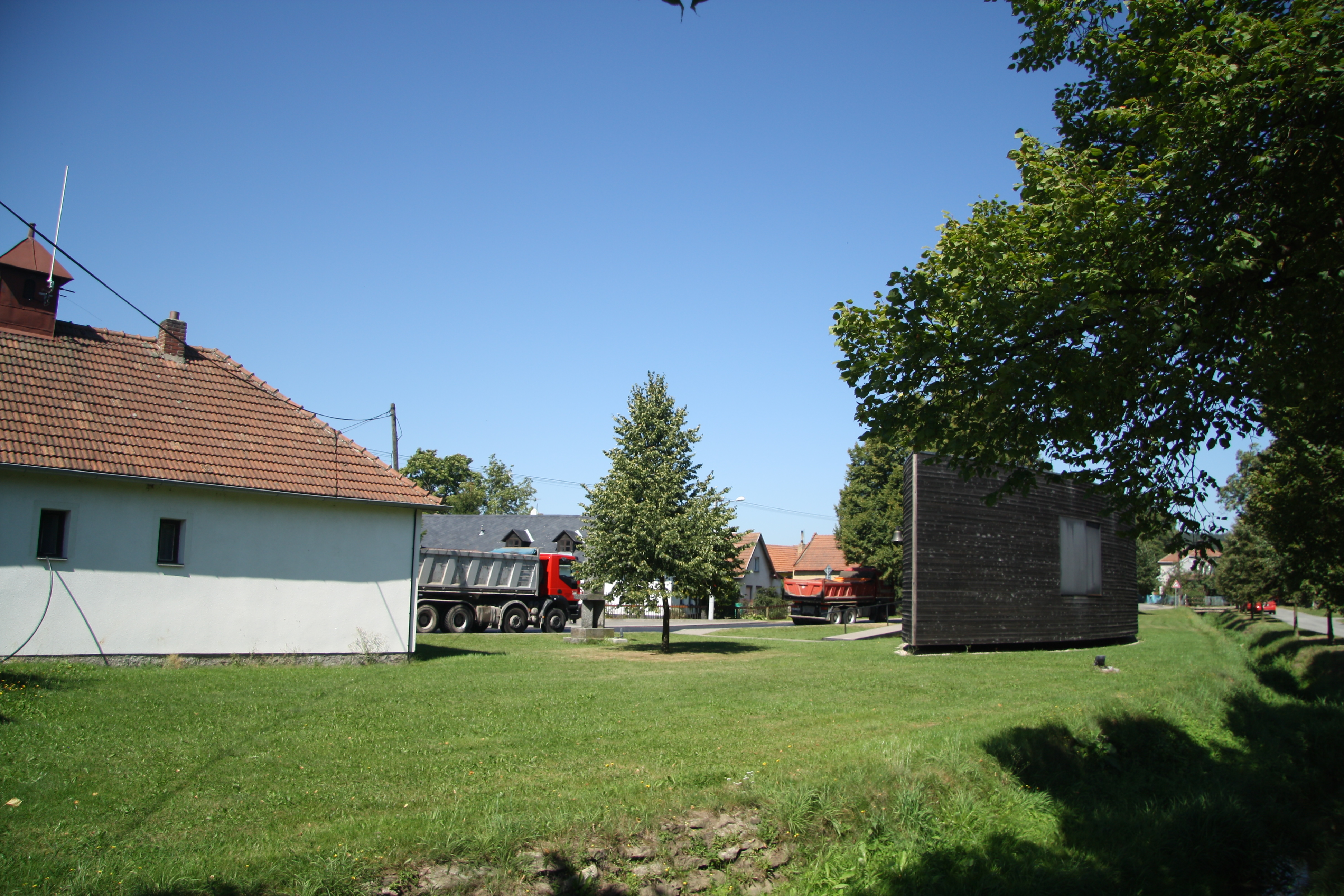 Center of Černá, Žďár nad Sázavou District.